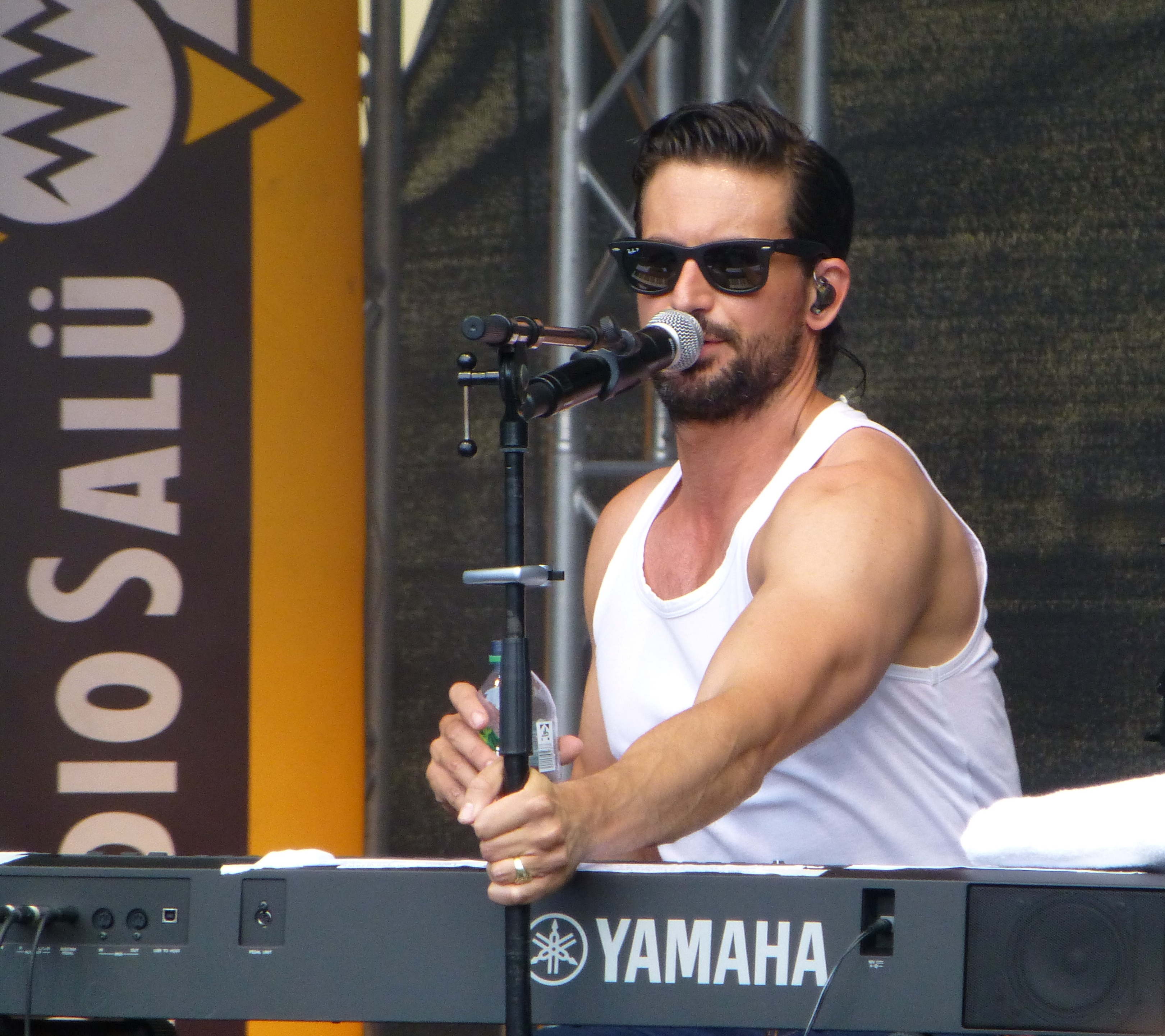 Tom Beck on the Radio Salü stage at the Saarspektakel 2014 in Saarbrücken